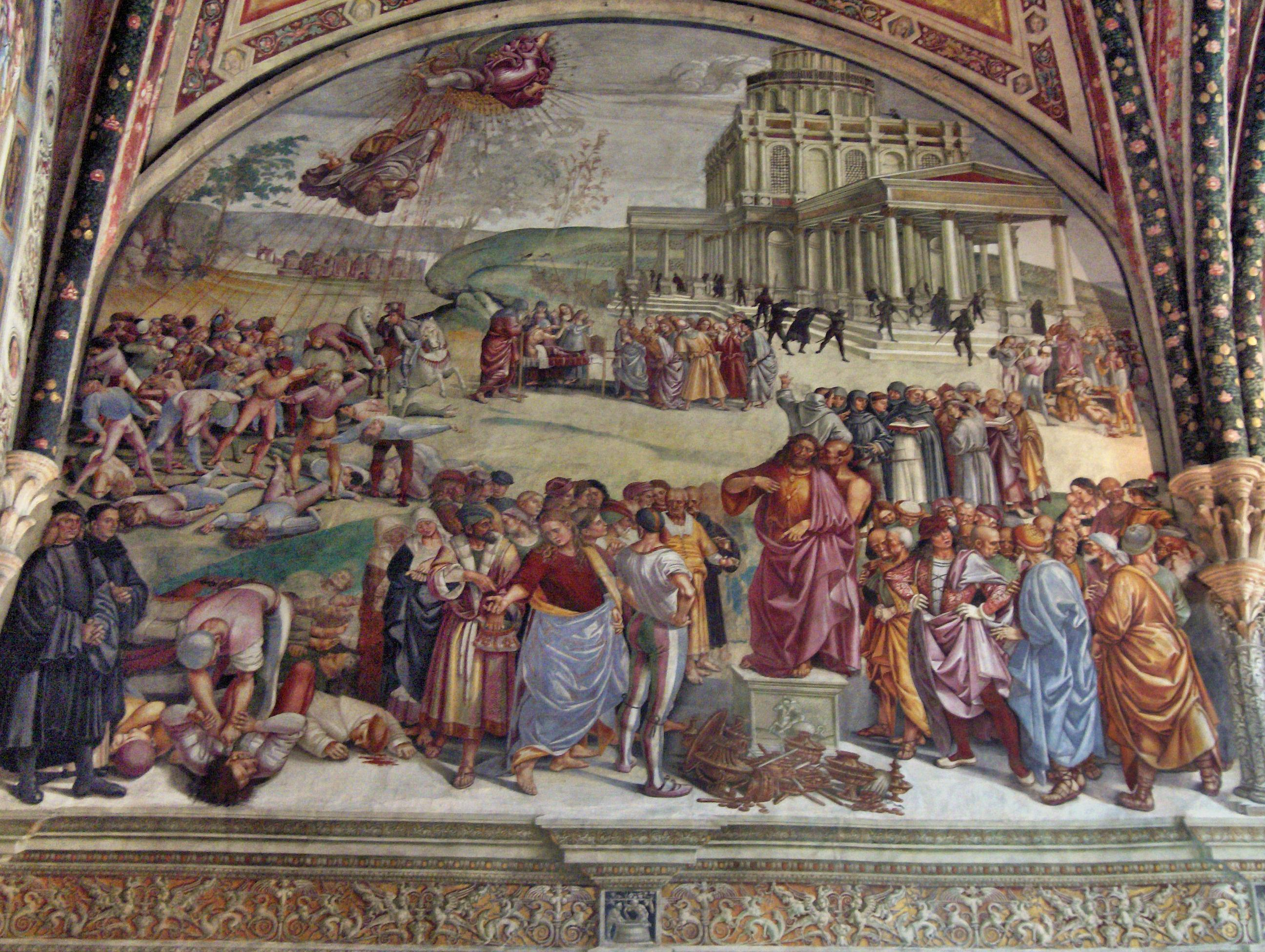 (in the left corner : the figures of Fra Angelico and Signorelli)